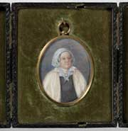 Watercolour portrait of Mary Reibey, circa 1835.